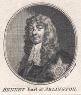 Henry Bennet, 1st Earl of Arlington (1618-1685)